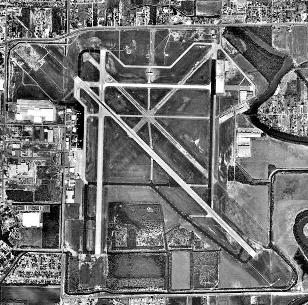 USGS digital orthophoto of Brownsville/South Padre Island International Airport, formerly Brownsville Army Airfield, in Brownsville, Texas, United States.